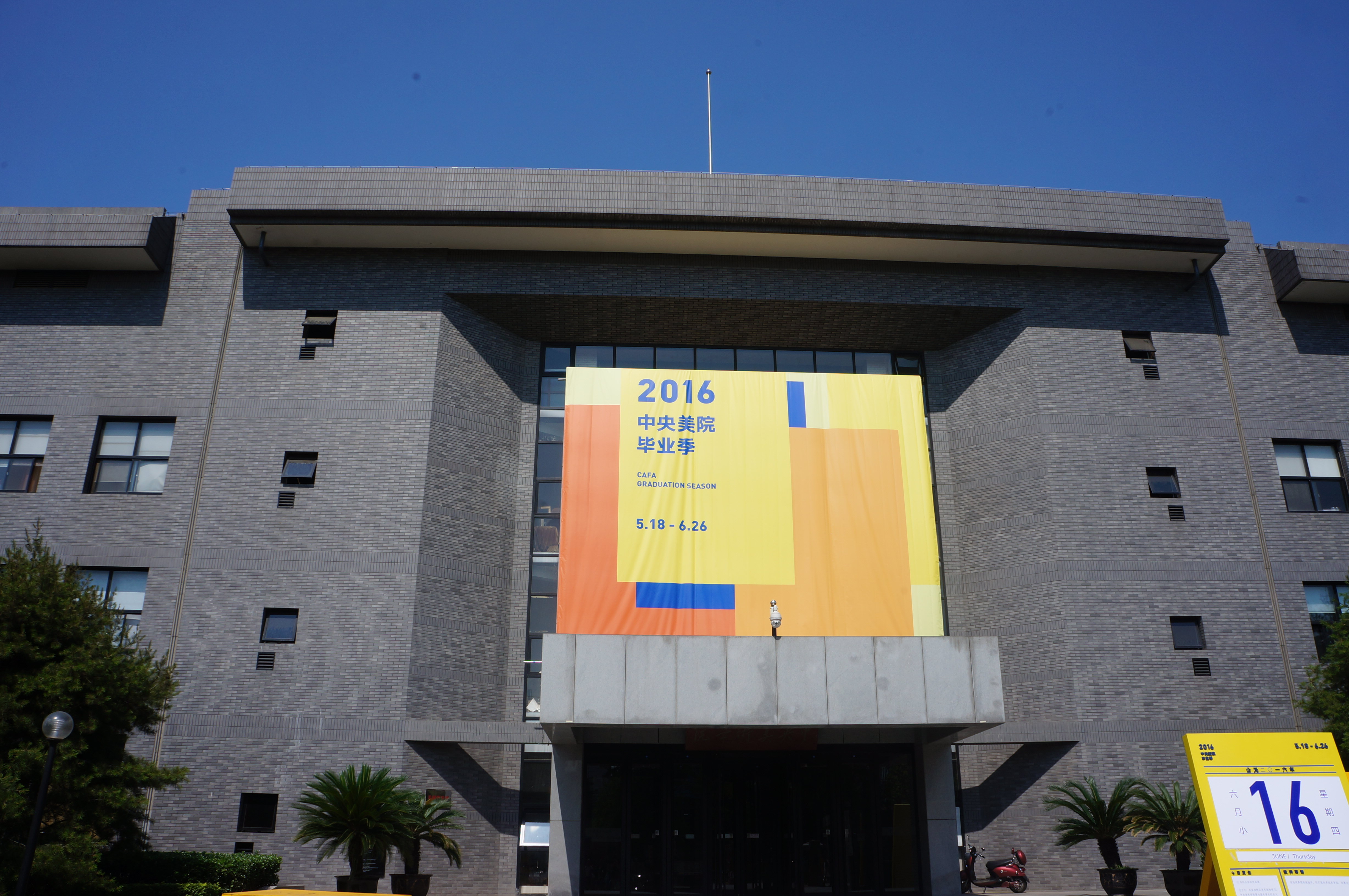 201606 CAFA Facade